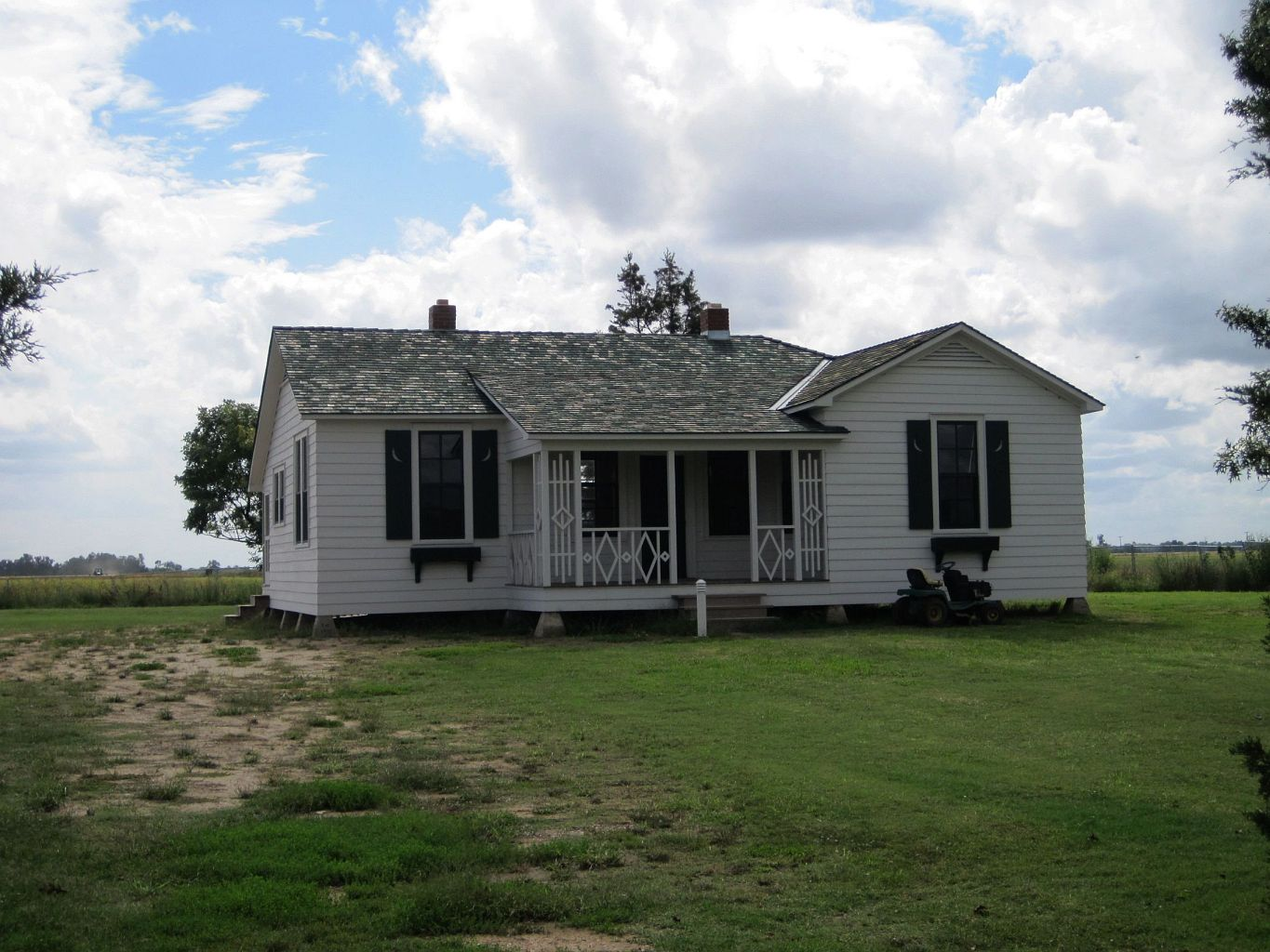 Johnny Cash boyhood home (Dyess, Arkansas)